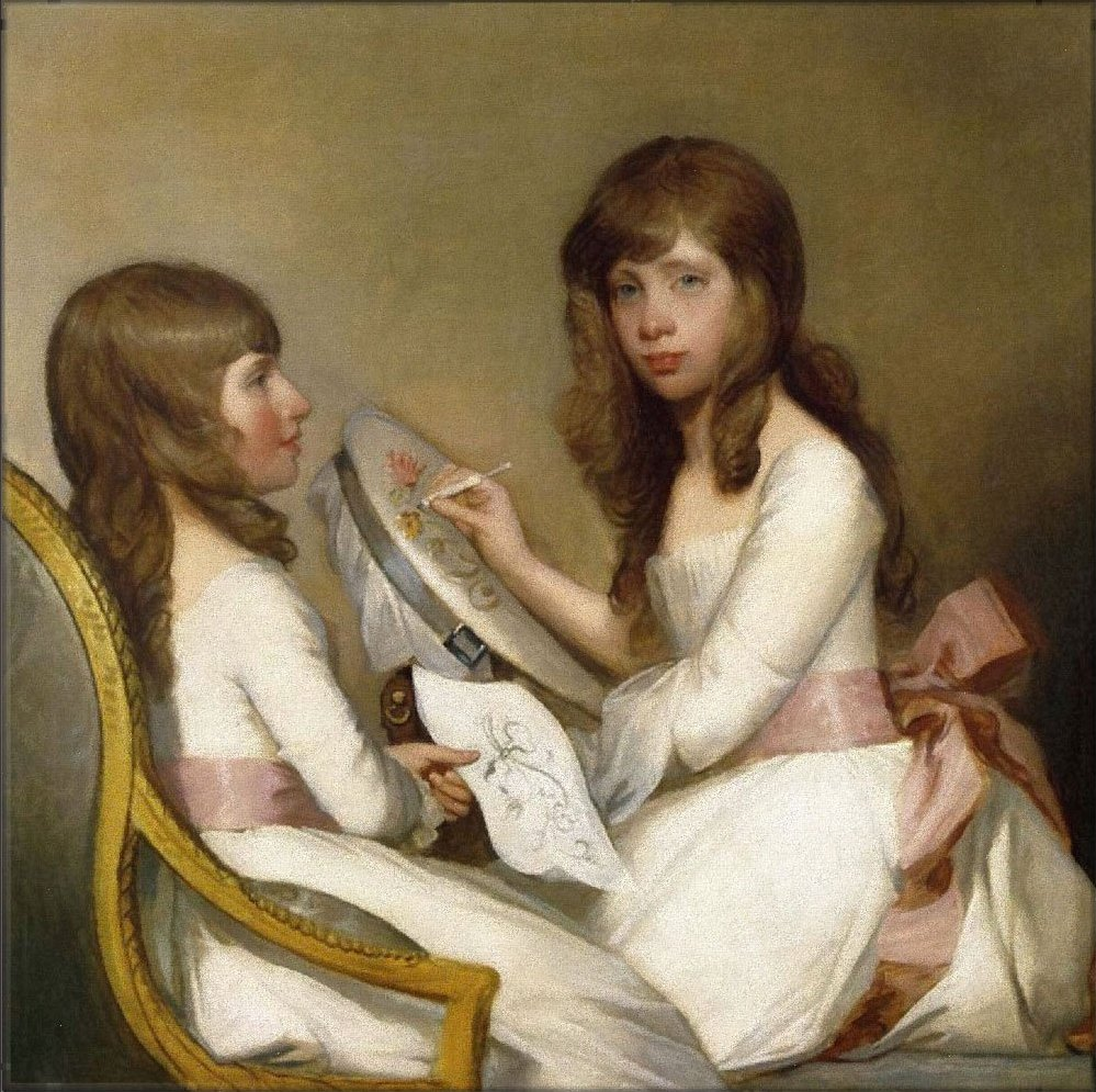 Gilbert Stuart, Anna Dorothea Foster and Charlotte Anna Dick, 1790-1791, oil on canvas, Winston-Salem, North Carolina, Reynolda House Museum of American Art.